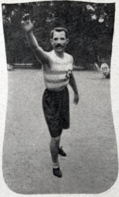 Panagiotis Paraskevopoulos, Greek sportsman